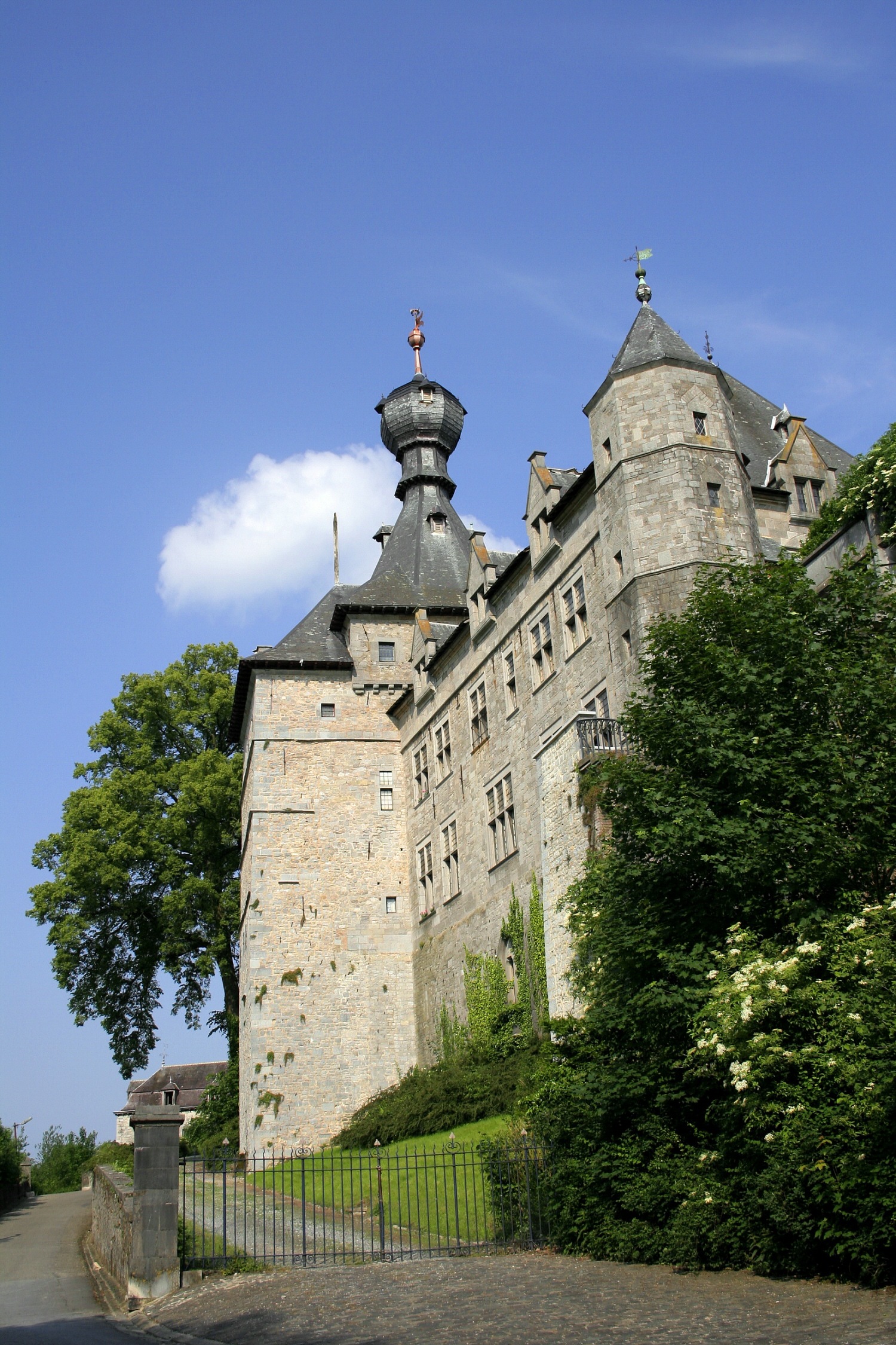 Chimay (Belgium), castle of the princes of Chimay (XIII/XIXth centuries).